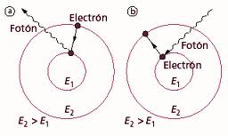 Fig 7. Emisión y absorción de energía en forma de cuantos al pasar de una orbita a otra.